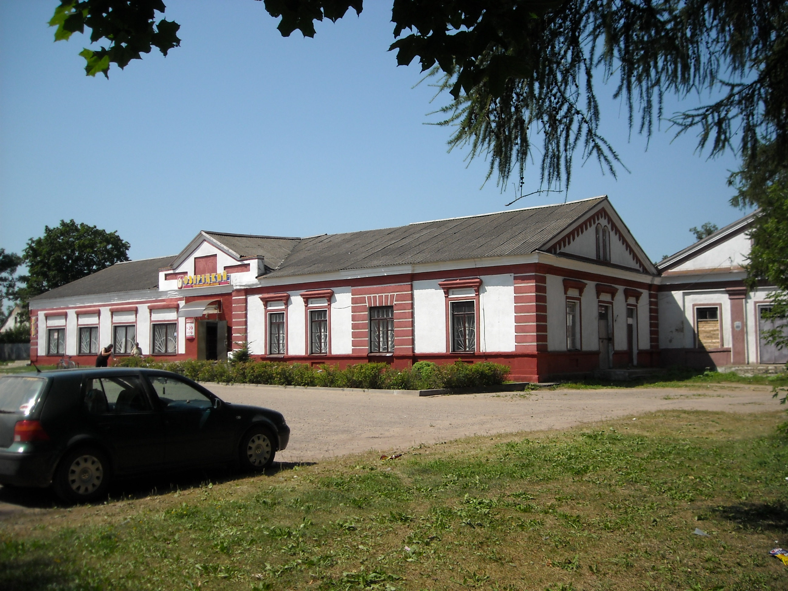 Беларуская (тарашкевіца): Дом былой сядзібы. в. Азерцы This is a photo of Belarusian heritage monument. Reference number: 213Г000372 ( WLM)